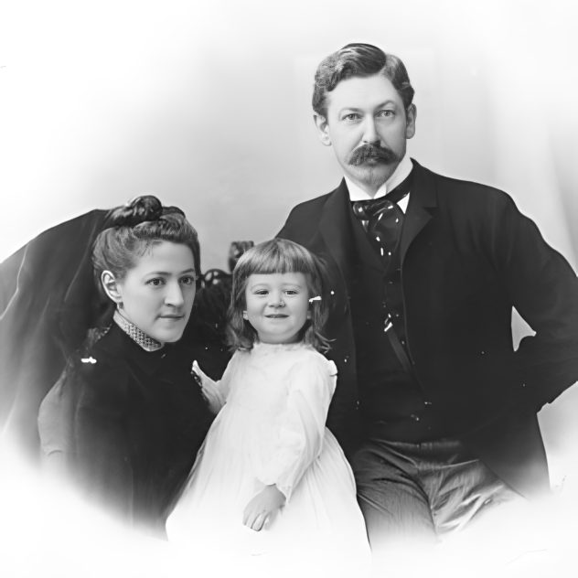 This is an 1892 photograph of Lovecraft's family.